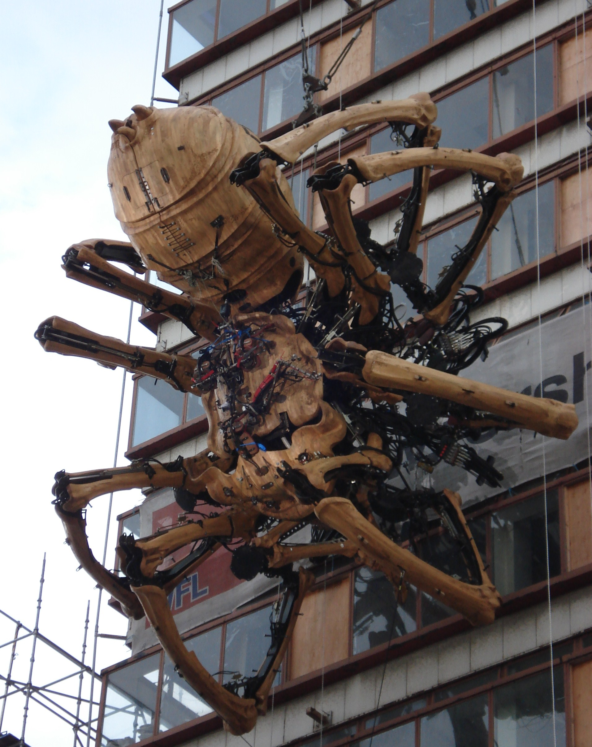 La Princesse, Liverpool, Merseyside, England.